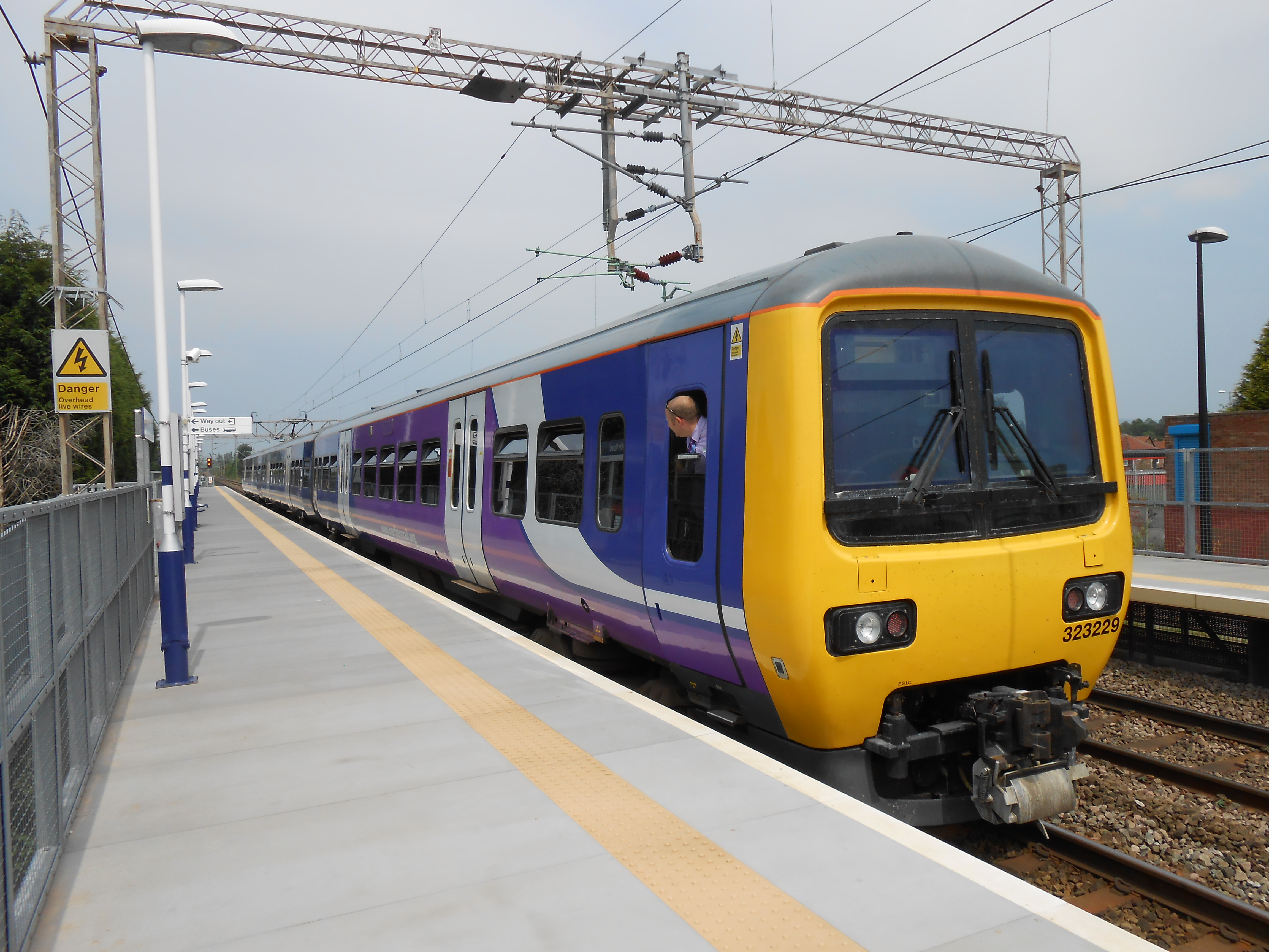 323229 at Mauldeth Road railway station, Manchester, England.